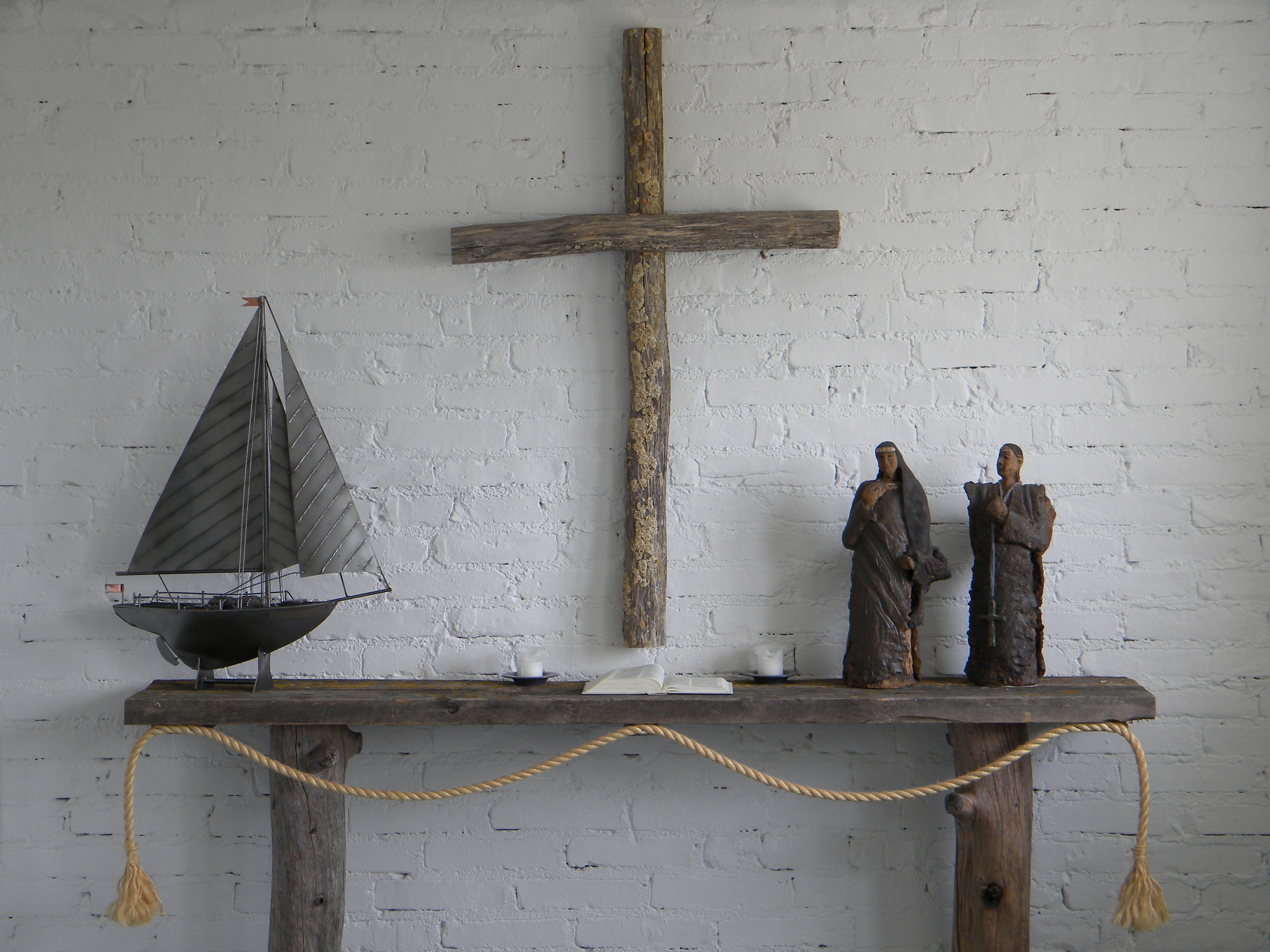 The altar of the Chapel in the Kylmäpihlaja lighthouse.